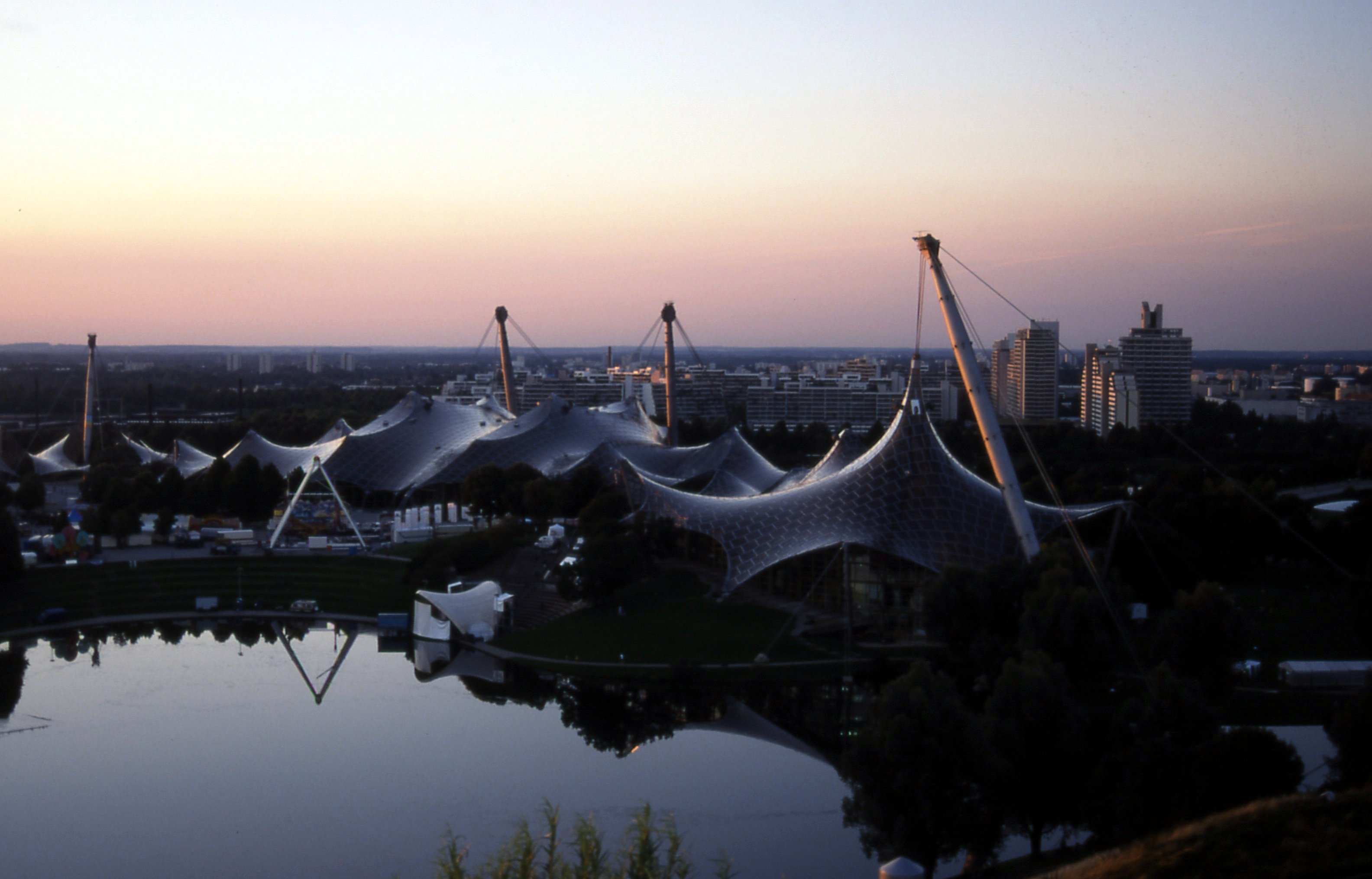 Munich Olympia Stadium at Dusk